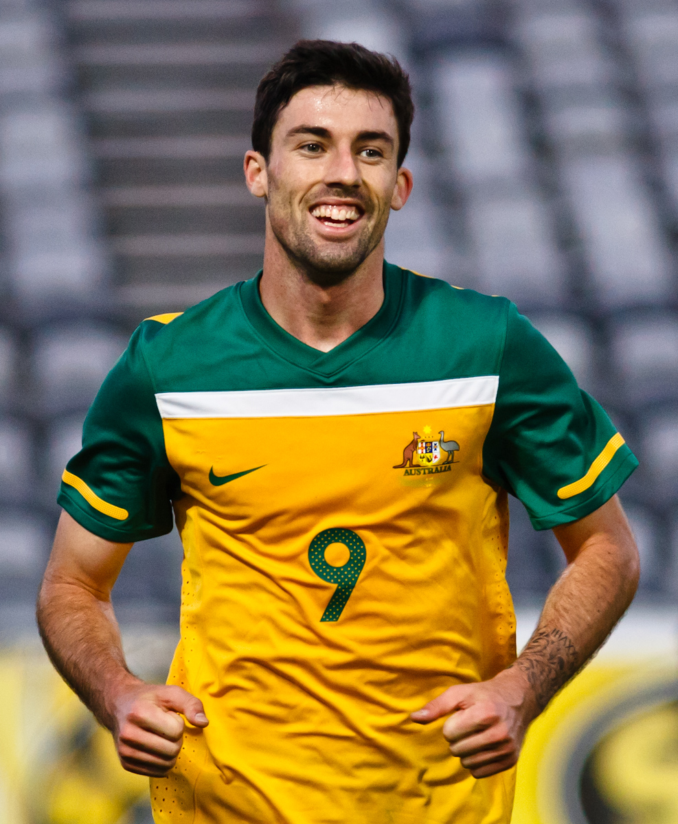 Jason Hoffman playing for the Australian Olympic Football team against Yemen in 2011 at Gosford, New South Wales.